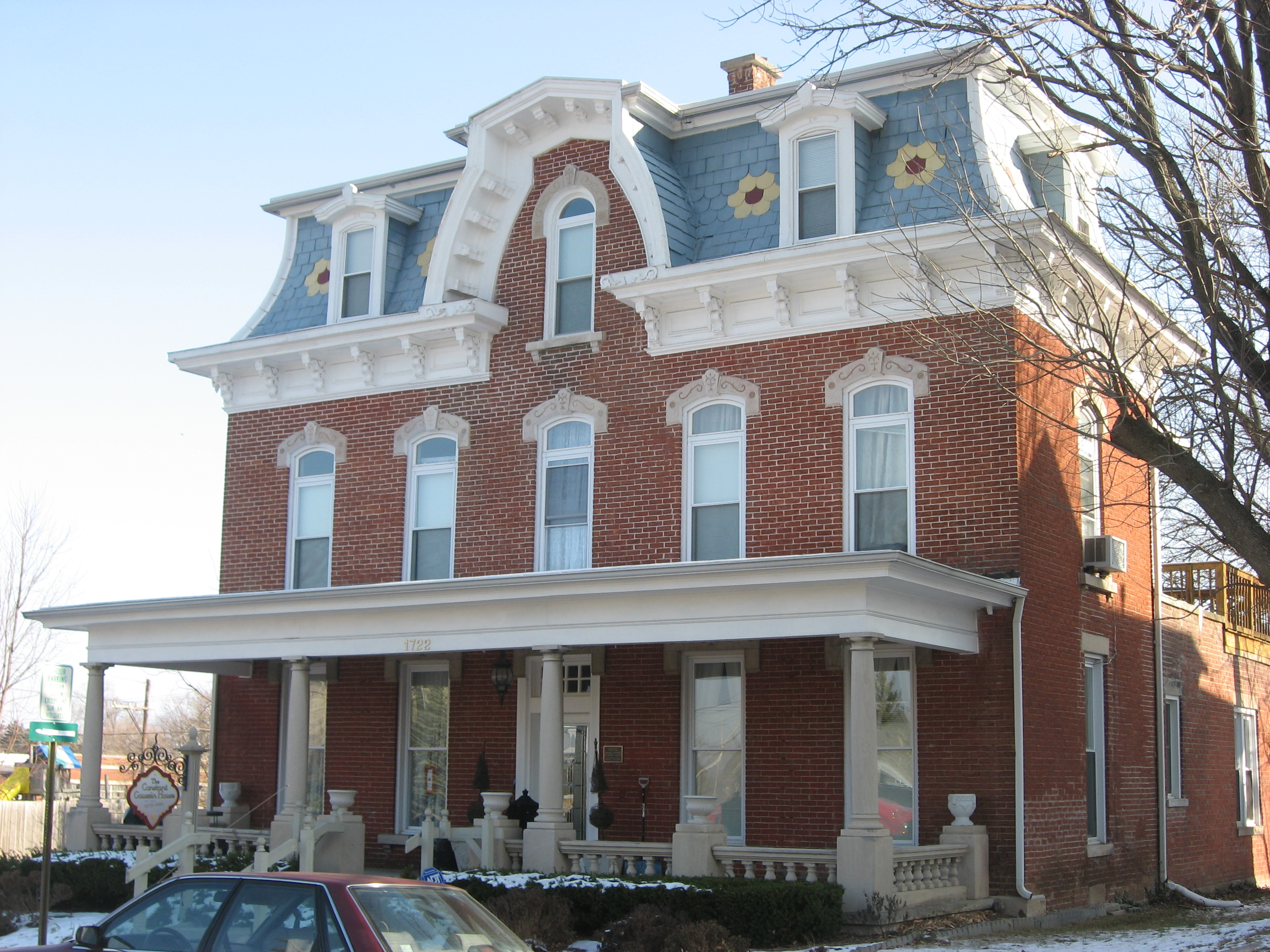 Front of Constant Gaussin House, located at 1722 I Street in Bedford, Indiana, United States. Built in 1880, it is part of the Zahn Historic District, a historic district that is listed on the National Register of Historic Places.